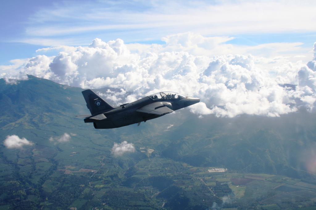 SIAI-Marchetti S-211 of the Armed Forces of the Philippines over the Mount Apo